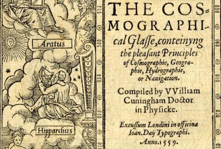 A 16th century depiction of astronomer Hipparchus with his astrolabe.